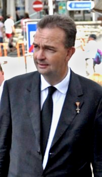 Karl Habsburg-Lothringen, Head of the House of Habsburg-Lorraine